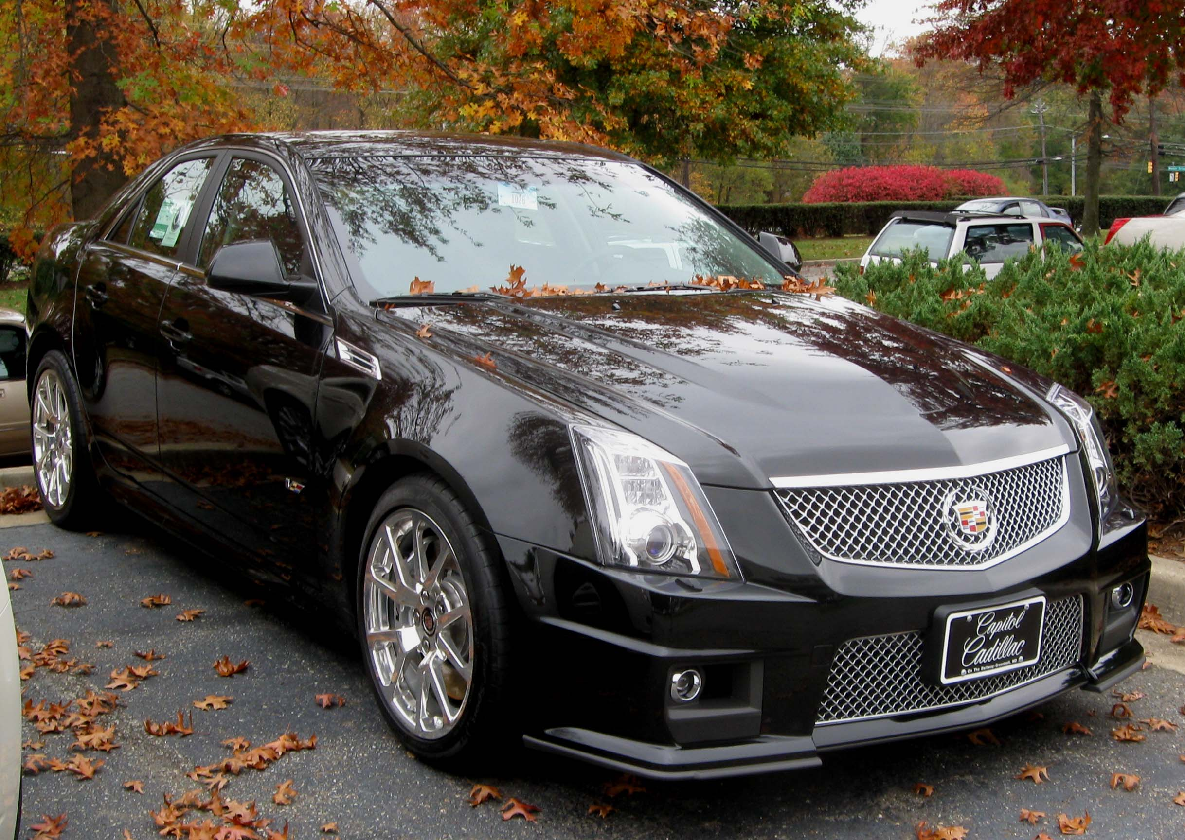 2009-2010 Cadillac CTS-V photographed in Greenbelt, Maryland, USA.